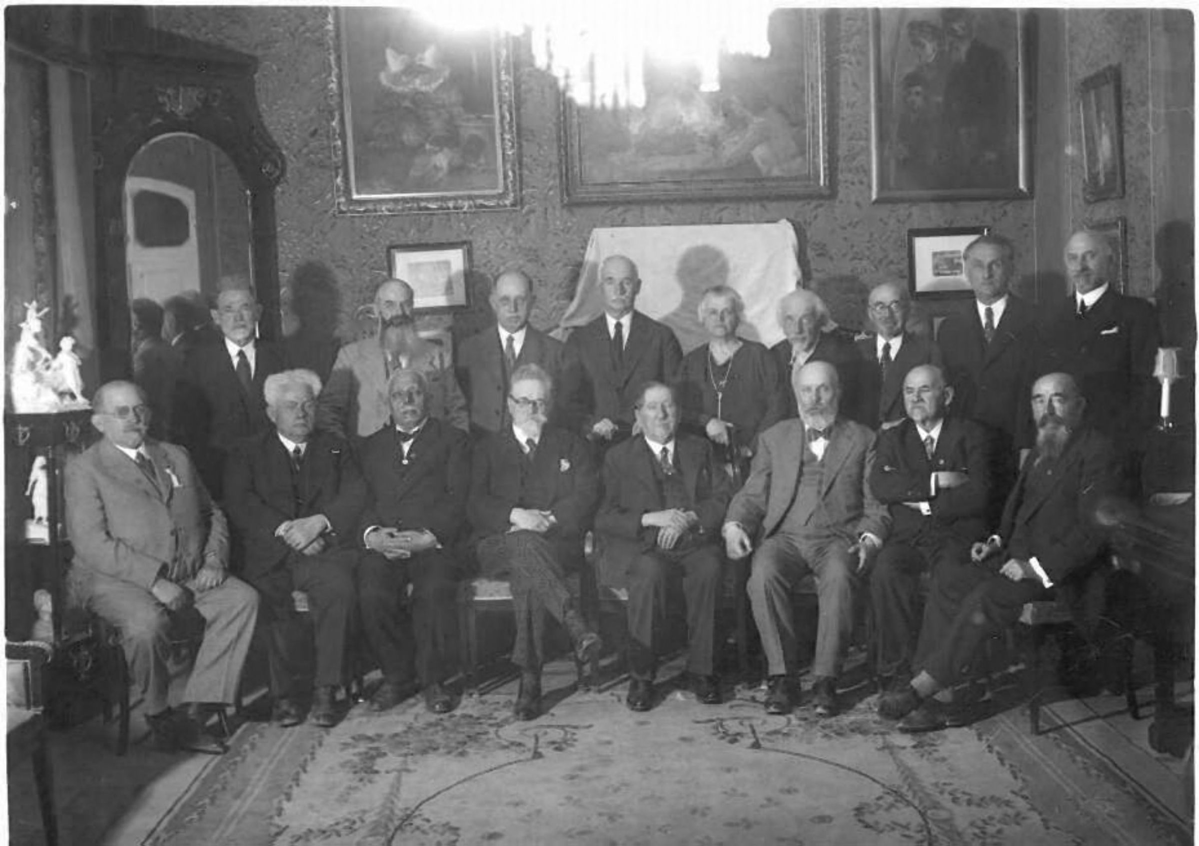 Nahum Sokolow, with the participants of the first World Zionist Congress at Heschel Farbstein's house in Jerusalem. Present: Joseph Klausner, Zvi Hirsch Belkowsky, Leib Yaffe, Menahem Ussishkin, Yitzhak-Leib Goldberg